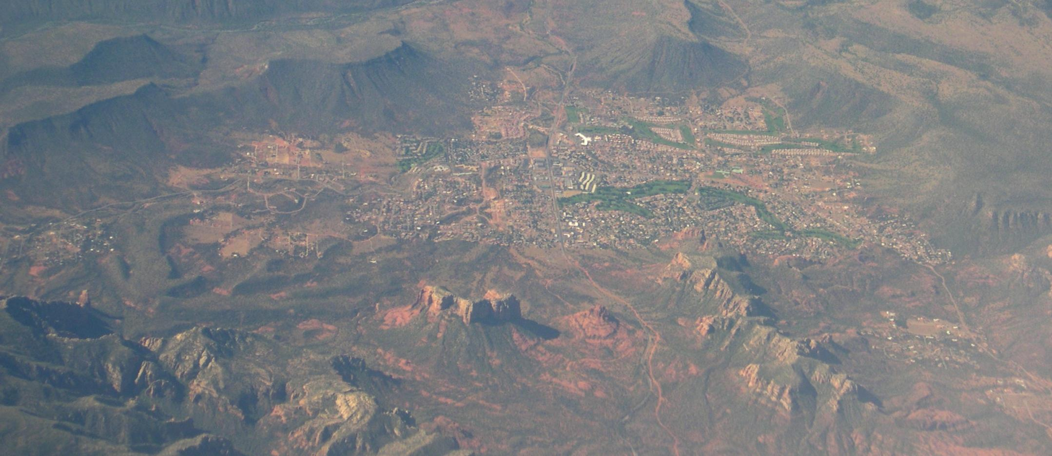 Sedona, Arizona. This is a picture of the Village of Oak Creek, located about 3 miles south of the city limits of Sedona by Bell Rock. The view is from the north (slightly NE), looking south (slightly SW). Source: Photo by User:Sfoskett.